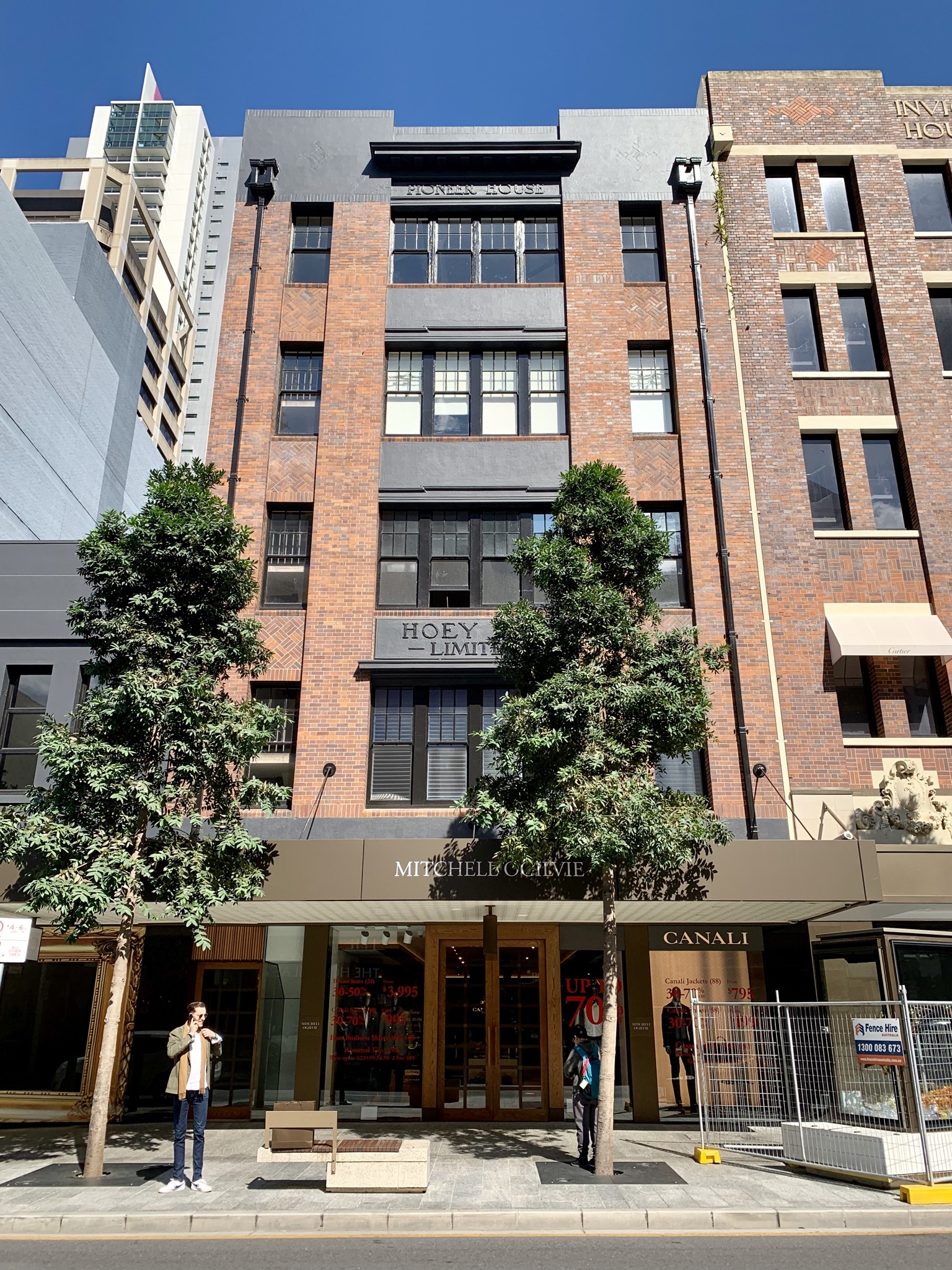 Pioneer House at 166 Edward Street, Brisbane, Queensland